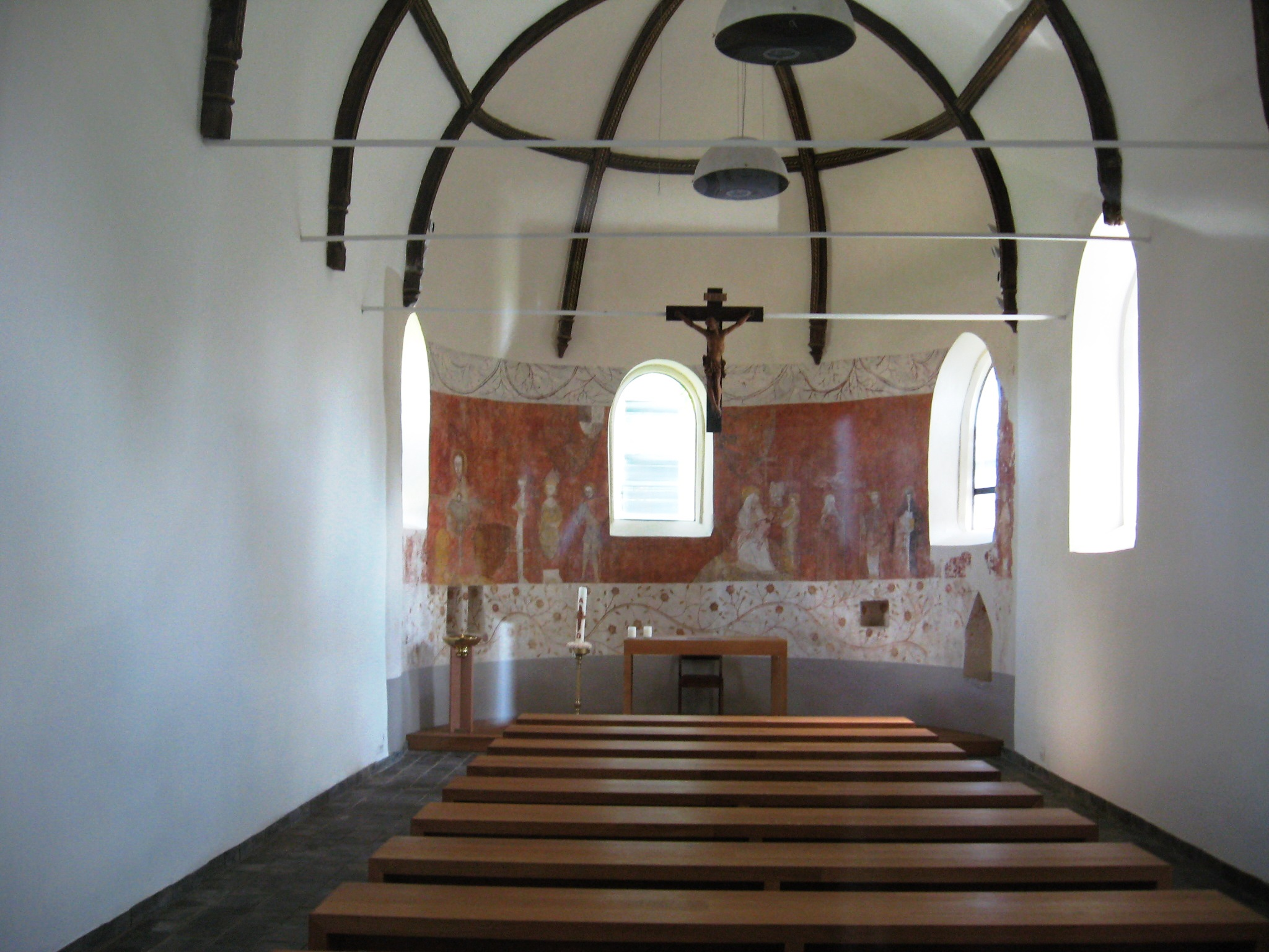 Inside the chapel of the Annunciation to Mary with wall painting from the 14th century in Spalbeek, Limburg, Belgium